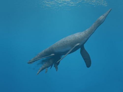 Polycotylus